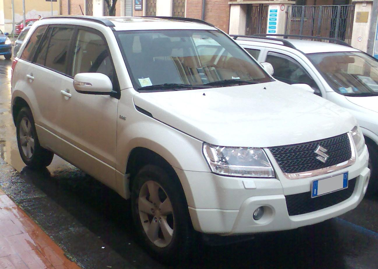 Suzui Grand Vitara 2010